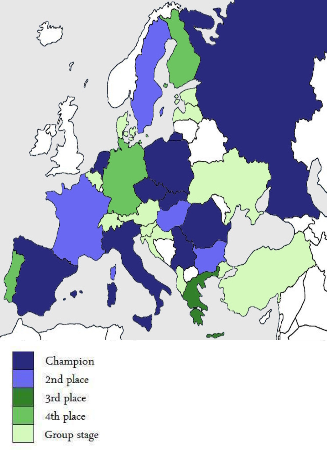 My work